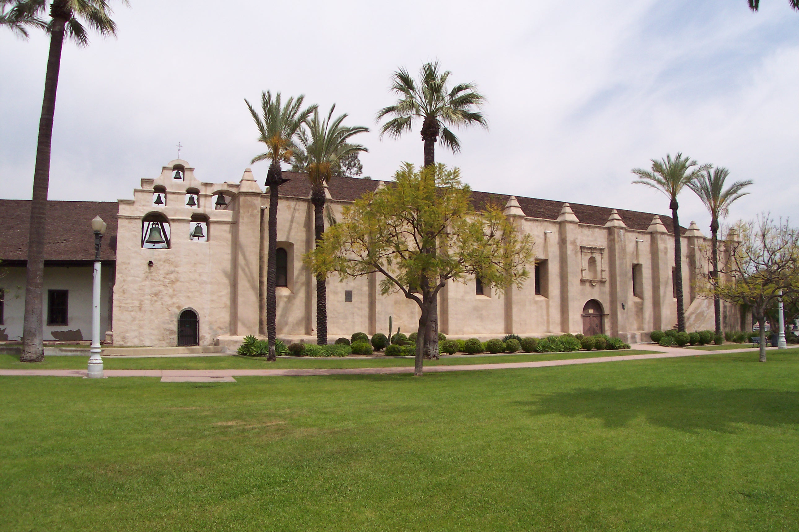 Mission San Gabriel Arcangel in San Gabriel, California